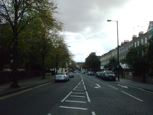 Lisson Grove